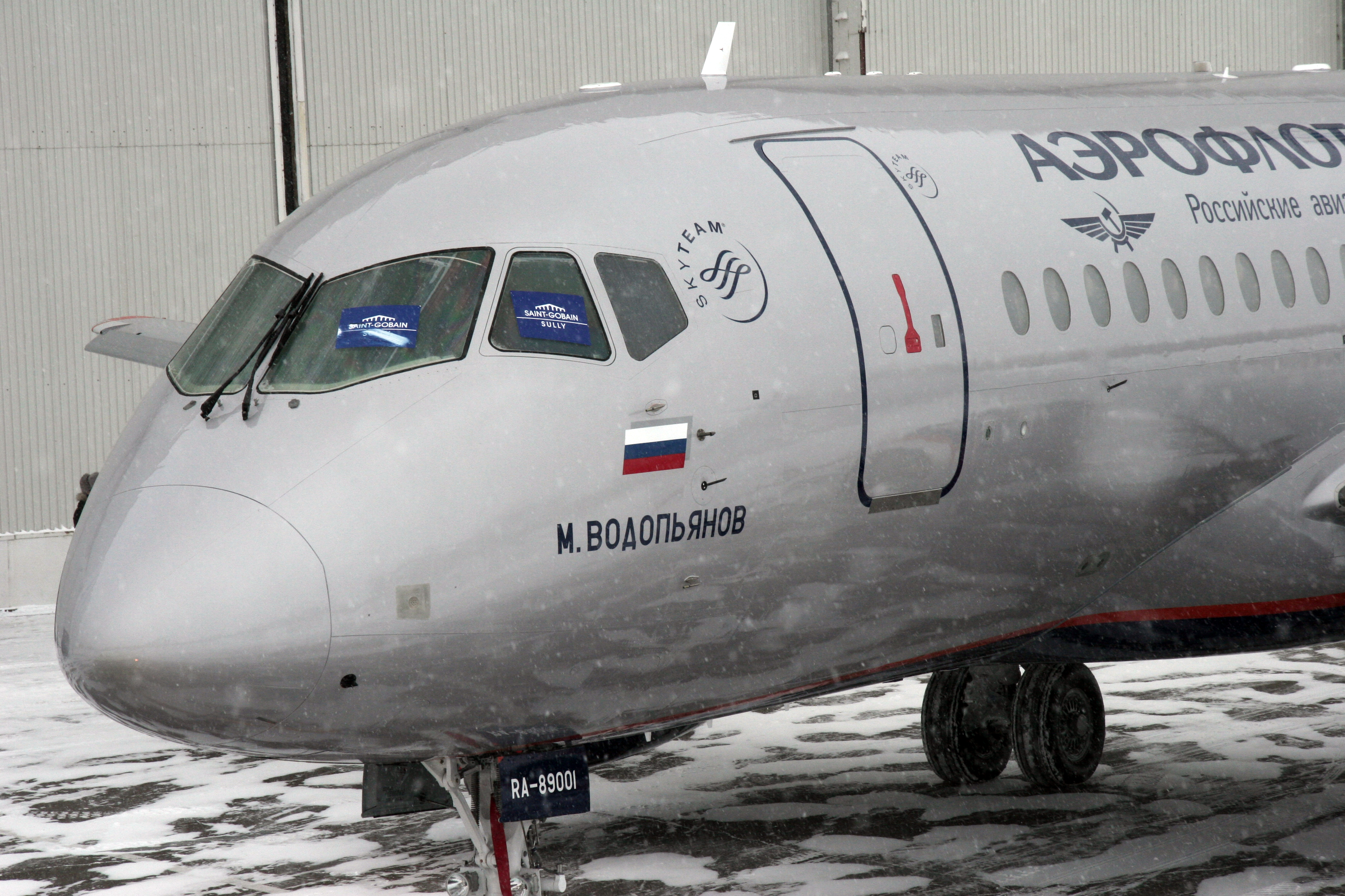 Aeroflot Sukhoi Superjet 100 (RA-89001) at Dzemgi Airport